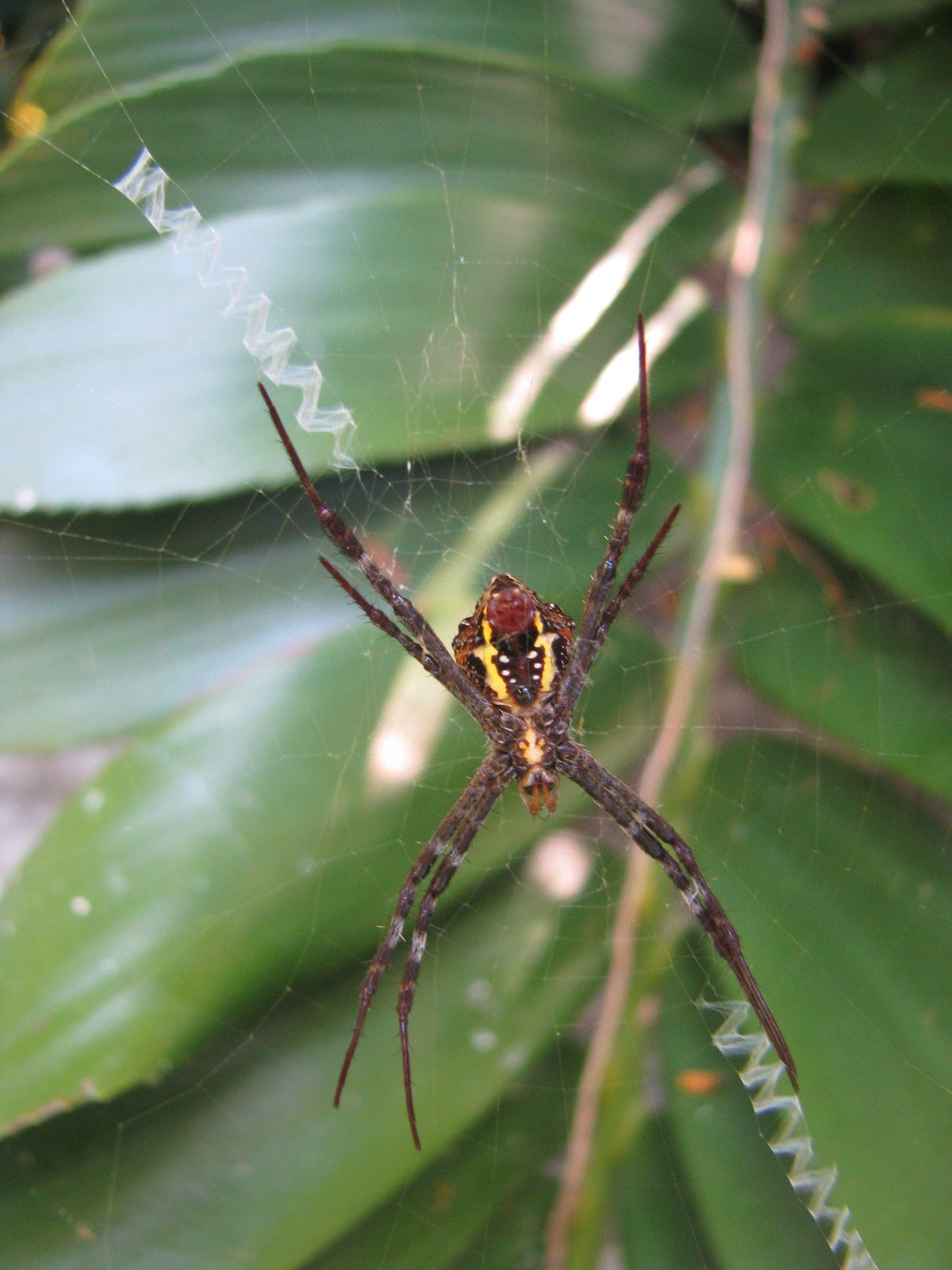 Argiope Picta Spider. Ventral view clearly showing the zigzag stabilimentum on the web. Taken Port Douglas, Queensland, Australia.